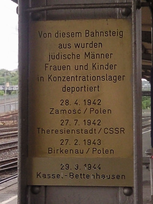 Brass plaque at the train station of Siegen (Germany), commemorating the deportation of jews between 1942 and 1944.